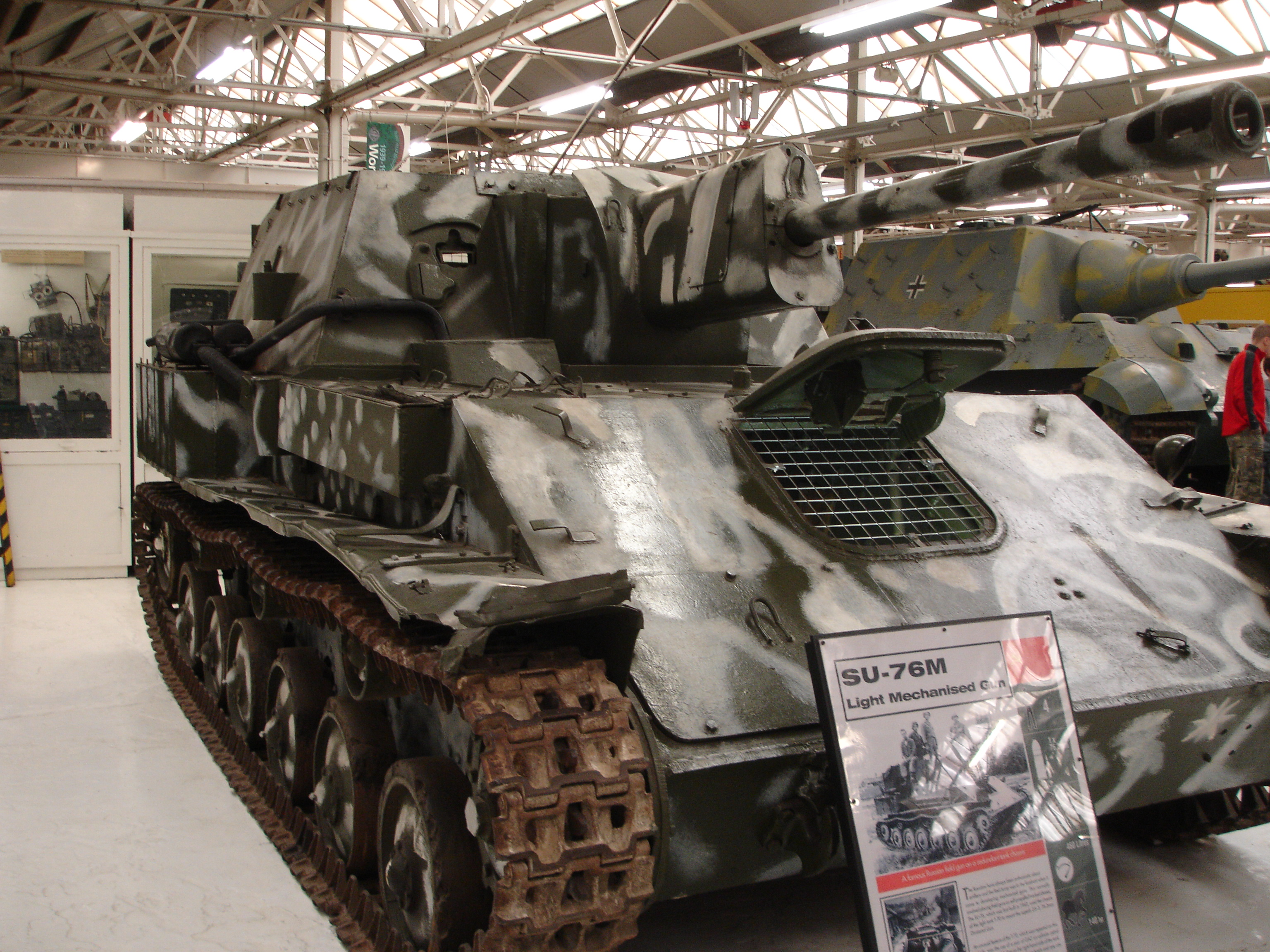 Soviet SU-76M Light Mechanised Gun at Bovington Tank Museum.